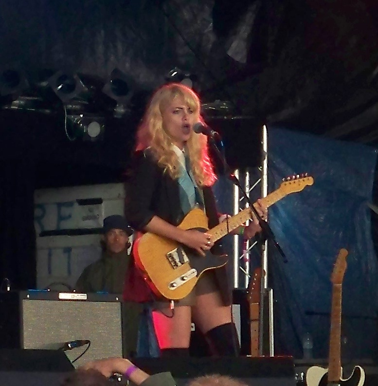 Alice Gold performing at Guilfest without her band - her drummer was feeling unwell on the day.